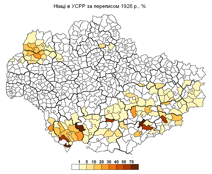 Percentage of ethnic germans in Ukrainian SSR by raions, 1926 soviet census